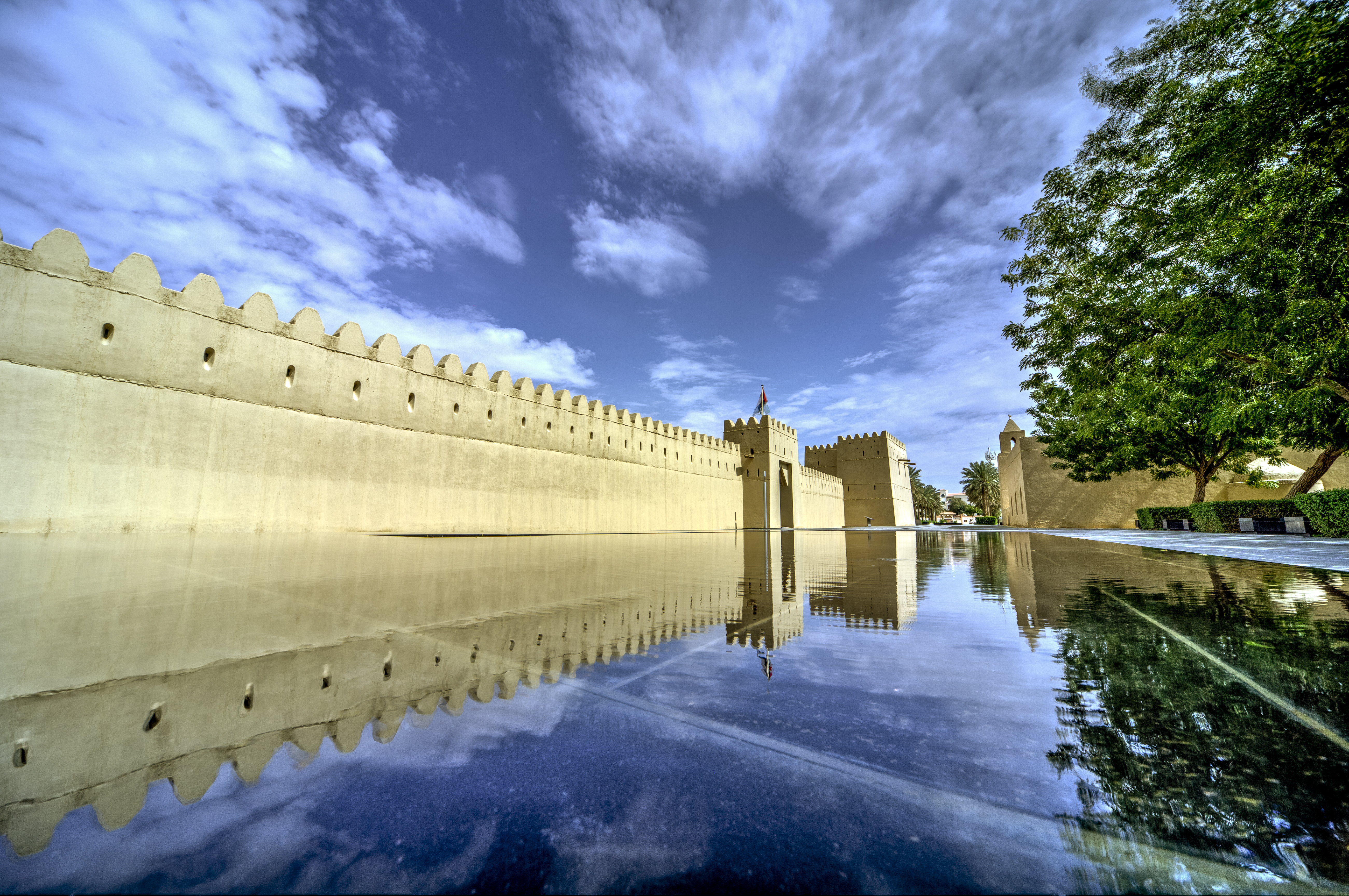 Qasr Al Muwaiji is the brithplace of Sheikh Khalifa bin Zayed Al Nayan, Ruler of Abu Dhabi and President of the UAE